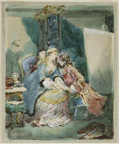 A Couple Embracing in an Artist's Studio, aquarelle